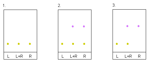 A simple example of monitoring an organic reaction with TLC. L = starting material, L+R Starting material + reaction mixture "co-spot", R = reaction mixture. 1. TLC run immediately after the starting material was placed in the reaction vessel, no product formed (only greenish yellow spot) 2. Later some product has been formed (purple spot), but there is still starting material present 3. No starting material present, reaction completed